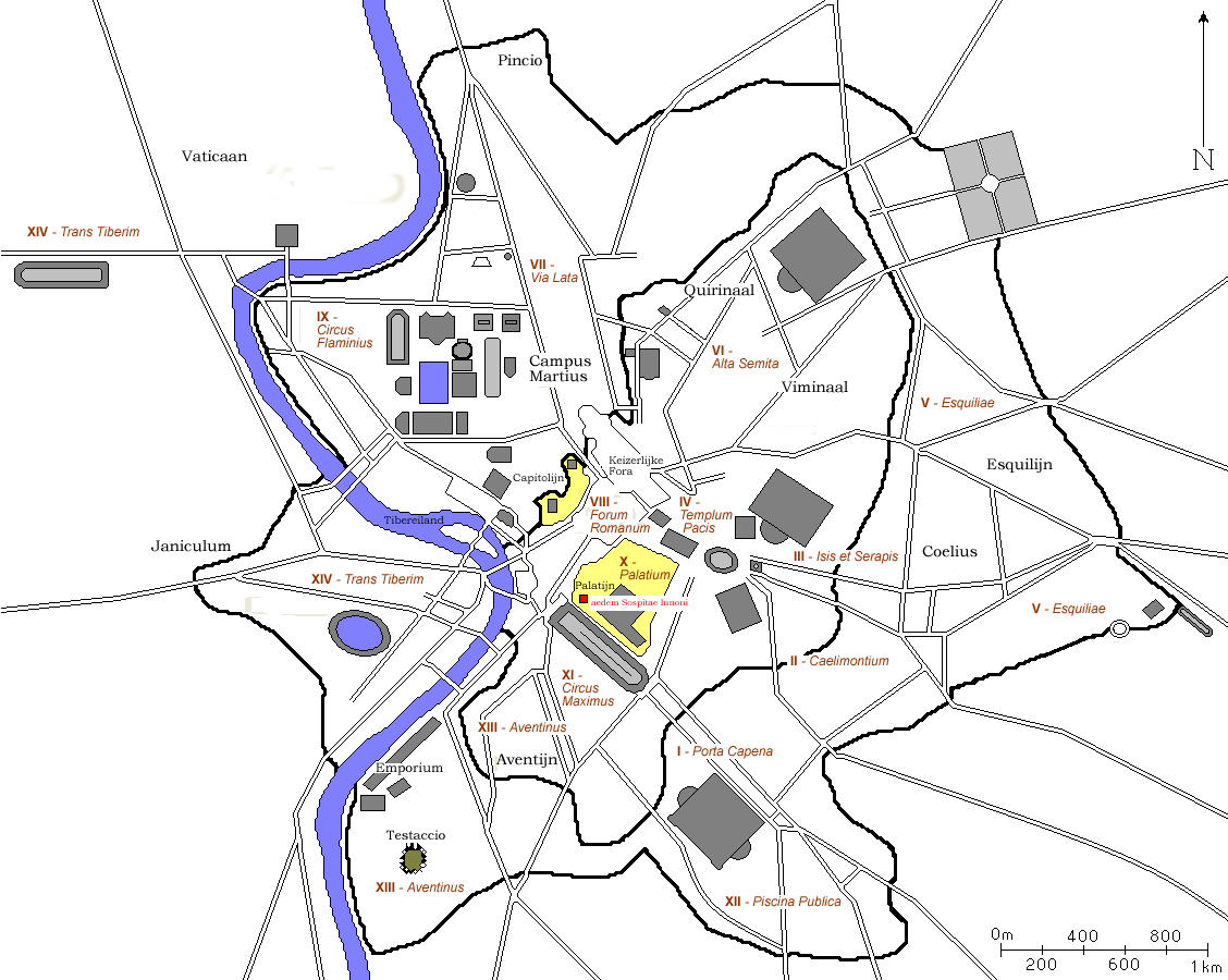 Location of the Temple of Juno Sospita on the Palatin on a map of ancient Rome